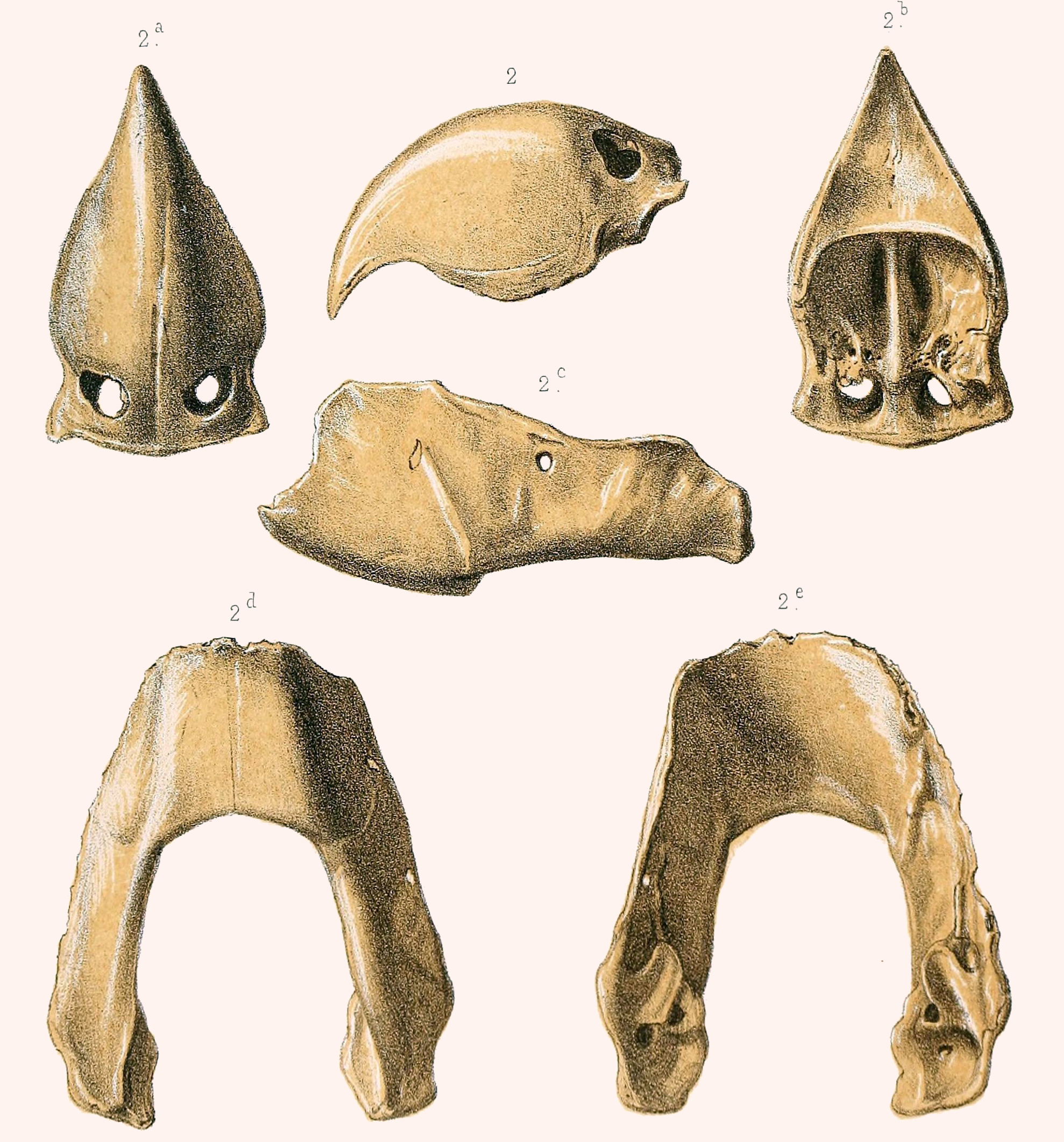 Subfossil beak of Necropsittacus rodericanus.